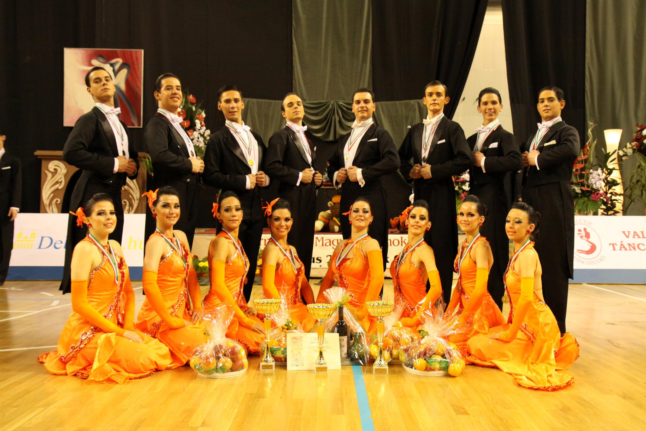 Ködmön Formation Dance Company.